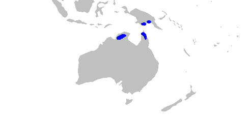 Distribution of the speartooth shark (Glyphis glyphis), based on Compagno, White, and Last (2008).